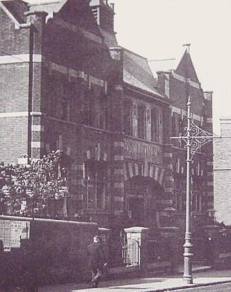 Selly Oak Free Library, which, although situated at the top of Bournbrook High Street, was regarded as just being within Selly Oak (images of this postcard, of which this is a section, have appeared in the following publications: Maxam, Andrew, Selly Oak & Weoley Castle on Old Picture Postcards, Yesterday's Warwickshire Series No. 20 (Reflections of a Bygone Age, Keyworth, 2004), image No. 49; Butler, Joanne, et al., Selly Oak and Selly Park, Images of England Series (Tempus Publishing Ltd, Stroud, 2005), p. 94)